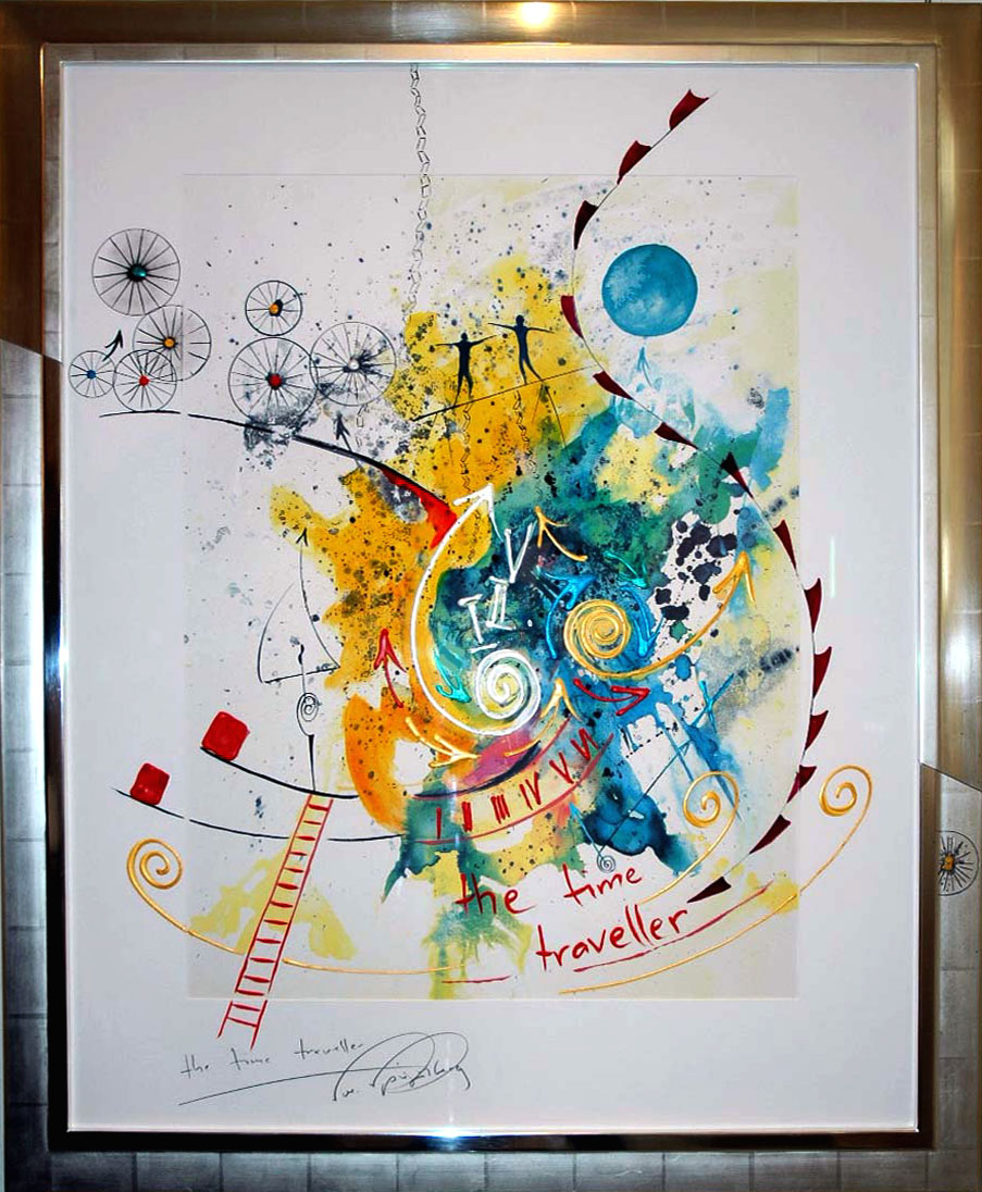 Time traveller